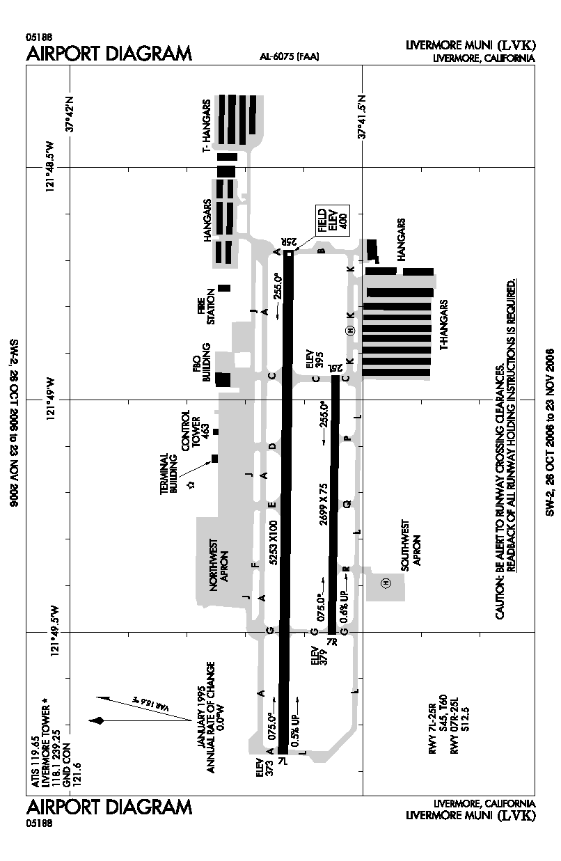 FAA airport diagram for LVK (Livermore Municipal Airport) in California, United States.